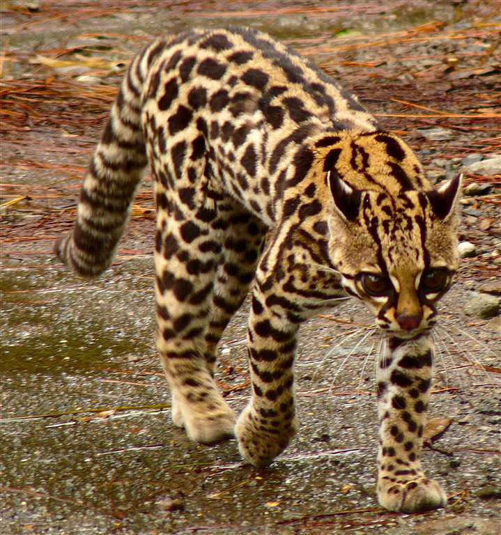 Tika, a 9 month old female Margay, on the grounds of the Arinal Volcano Observatory, Costa Rica